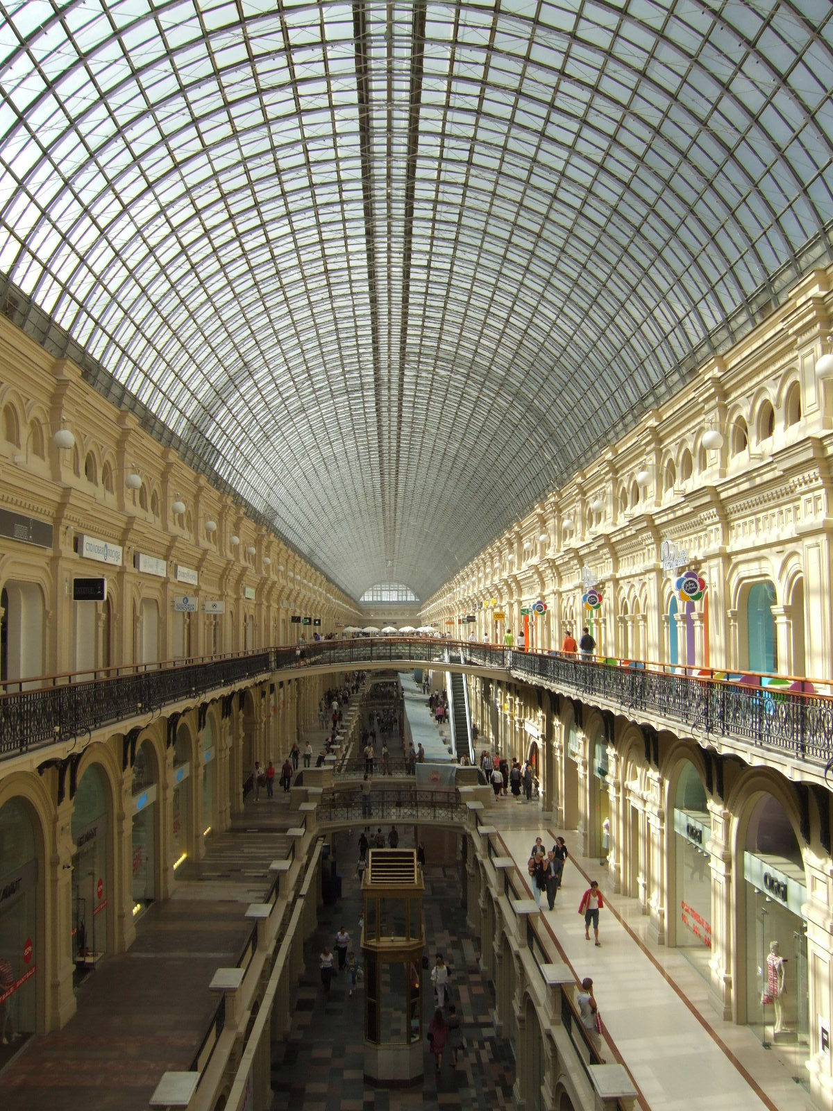 The Structure of the Roof of Upper Trading Rows (Moscow GUM) by Vladimir Shukhov - 1893